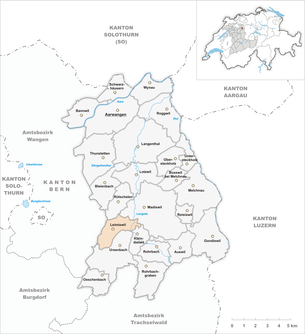 Municipality Leimiswil